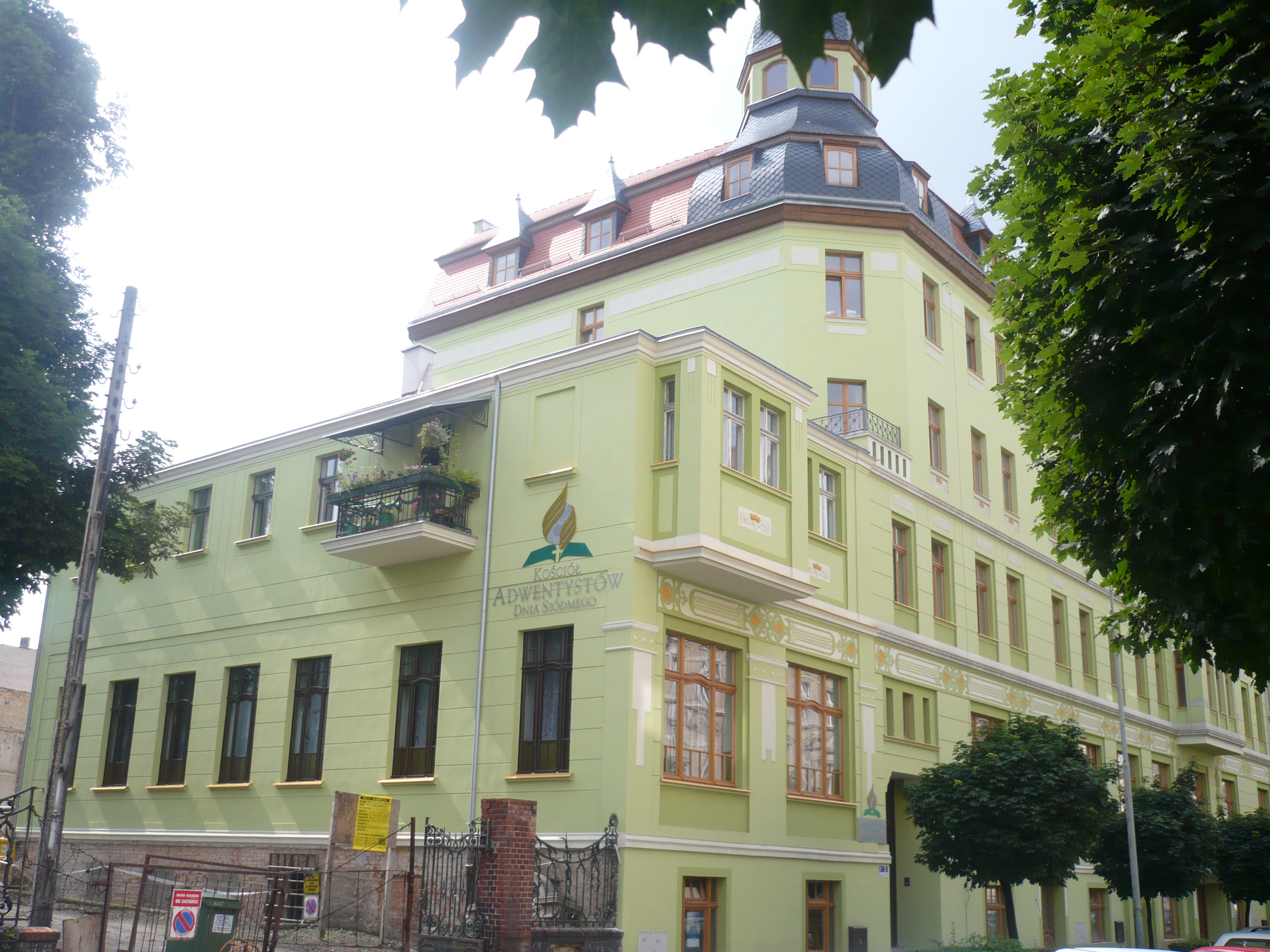 Seventh Day Adventist Church in Poland.